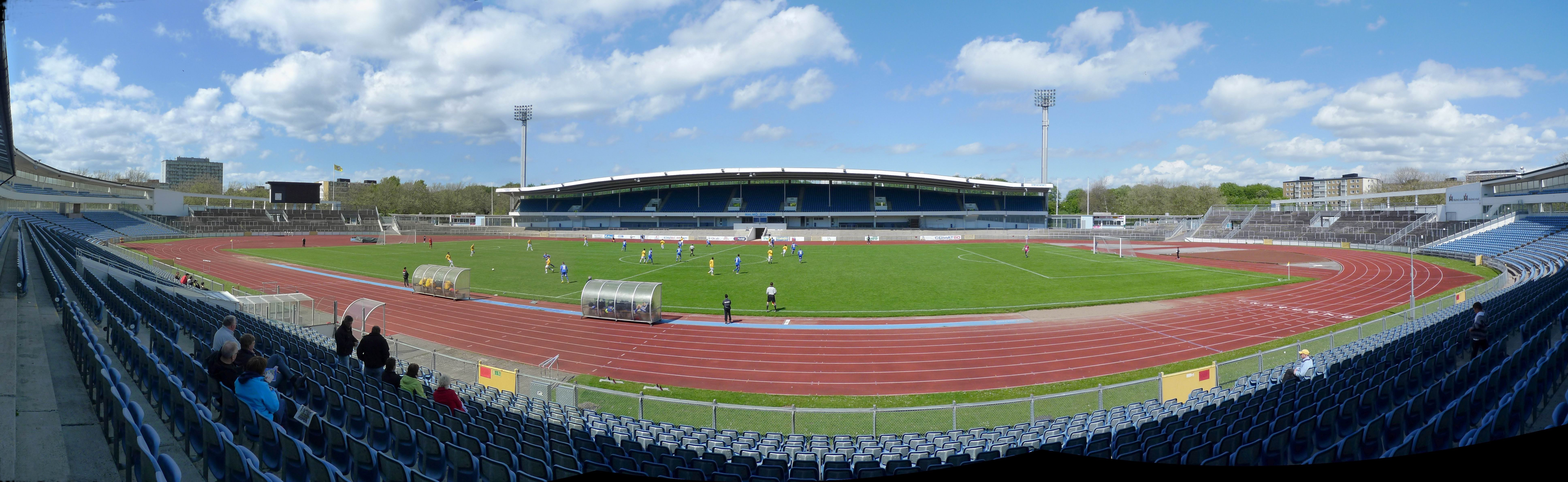 Panorama of Malmö Stadion (view from the North Stand)